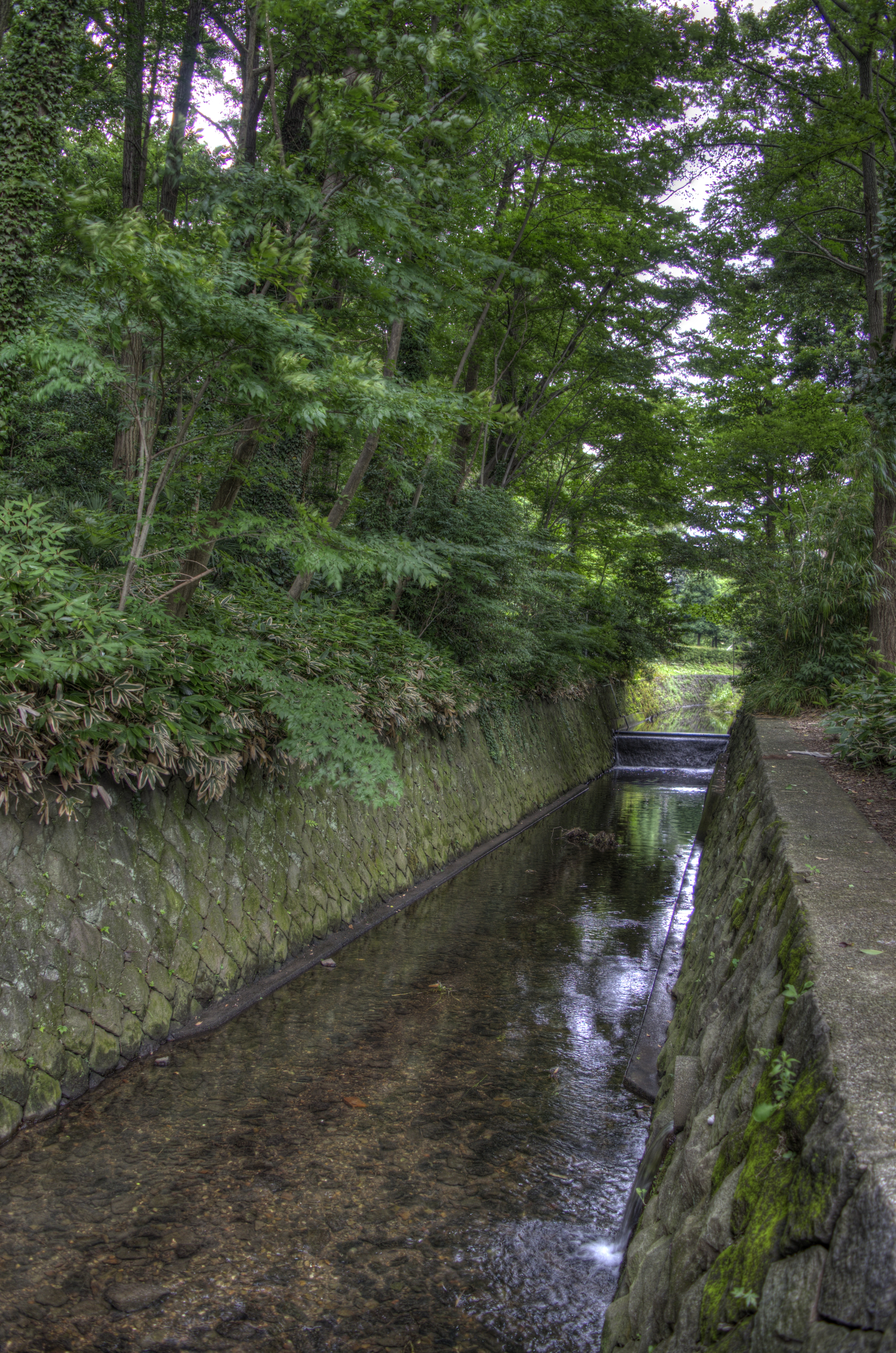 Yato River at Seikadō Bunko Art Museum, Tokyo.